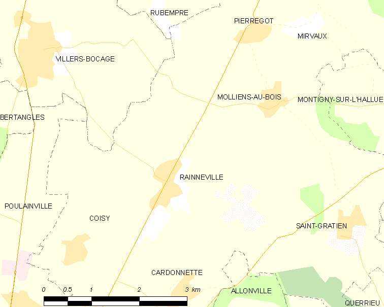 Map of French municipality Rainneville